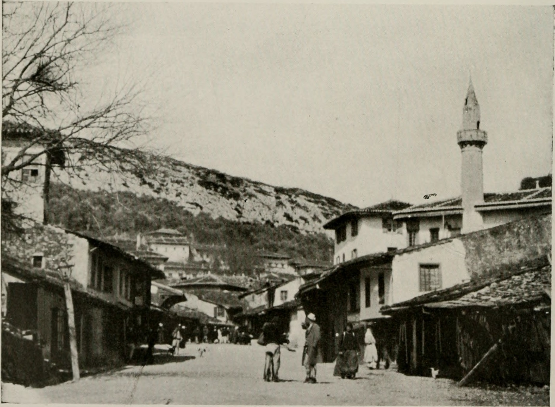 Title: Bird-hunting through wild Europe Year: 1908 (1900s) Authors: Lodge, R. B Subjects: Birds -- Europe; Photography of birds Publisher: London (England) : Robert Culley Text Appearing Before Image: MELITZA—A MONTENEGRIN GIRL Text Appearing After Image: DULCIGNO (To face page 79